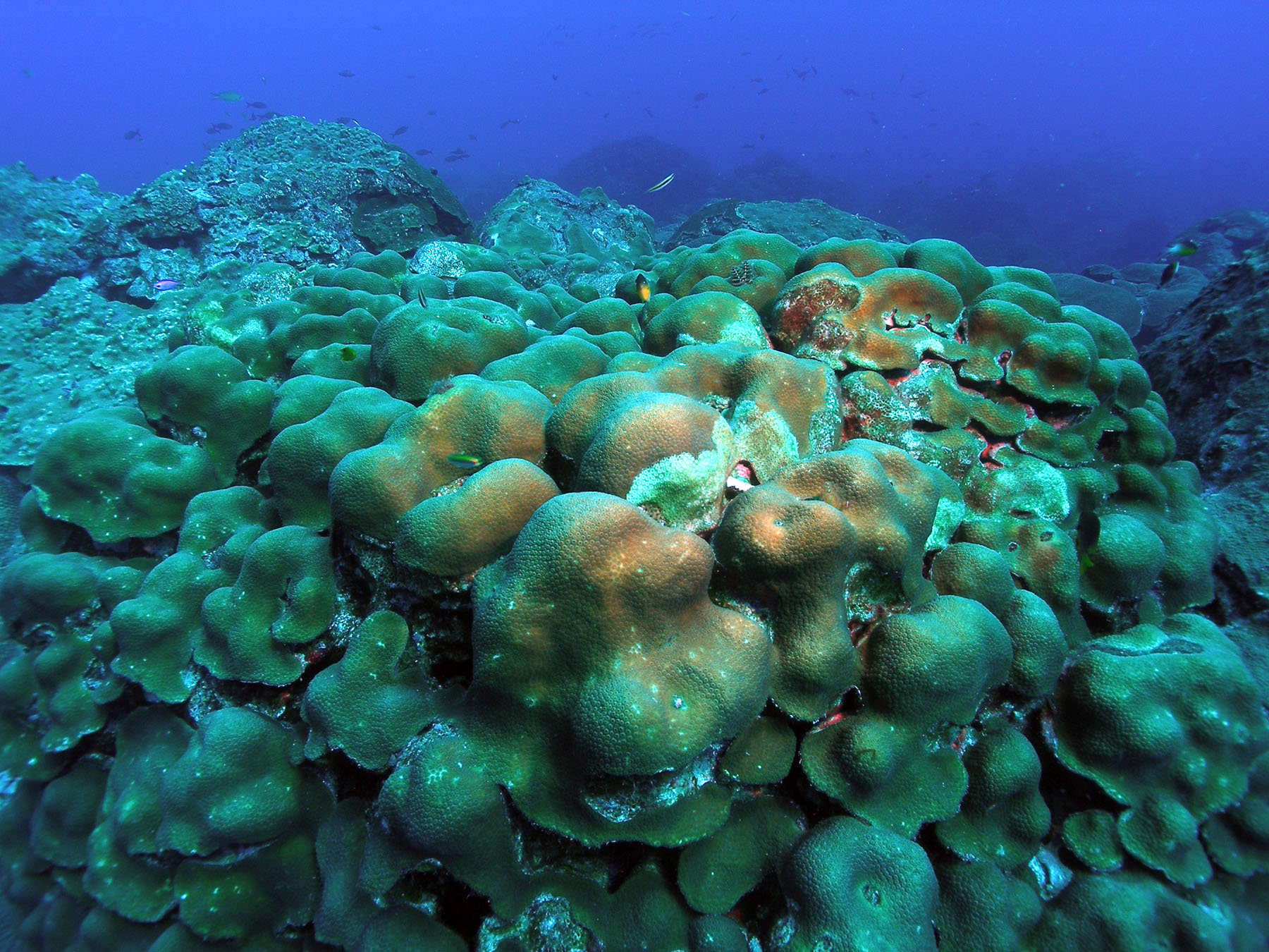 Orbicella annularis (Montastraea annularis), Florida